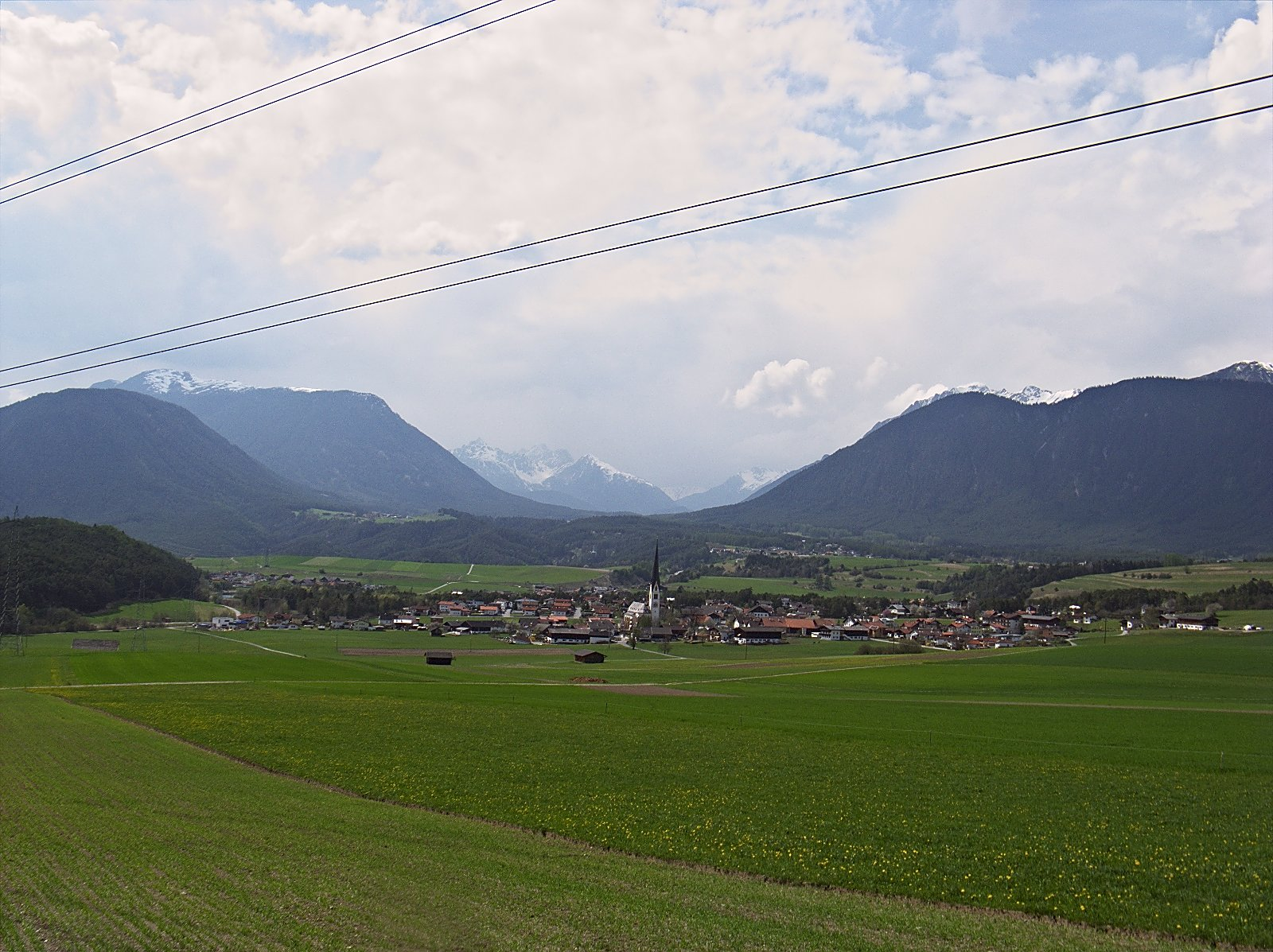 view of Untermieming from east (part of Mieming municipality, Austria)